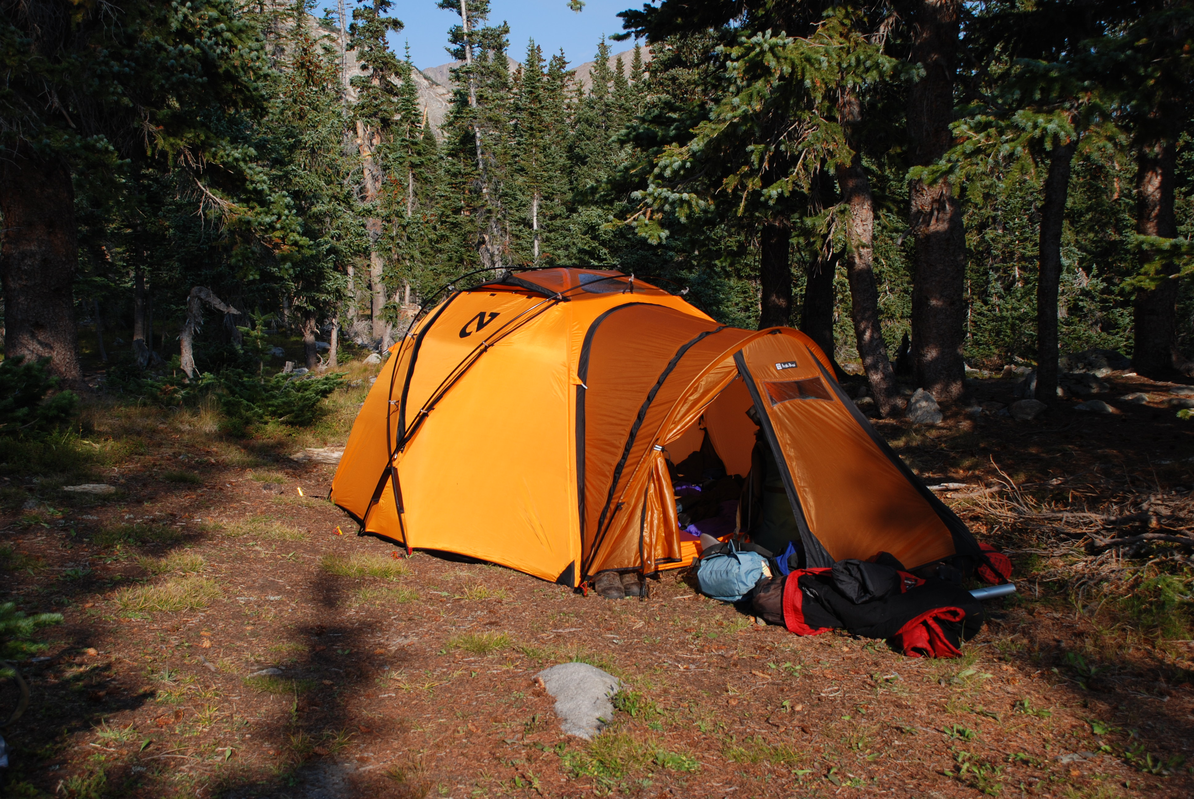 Camping with Moki Tent